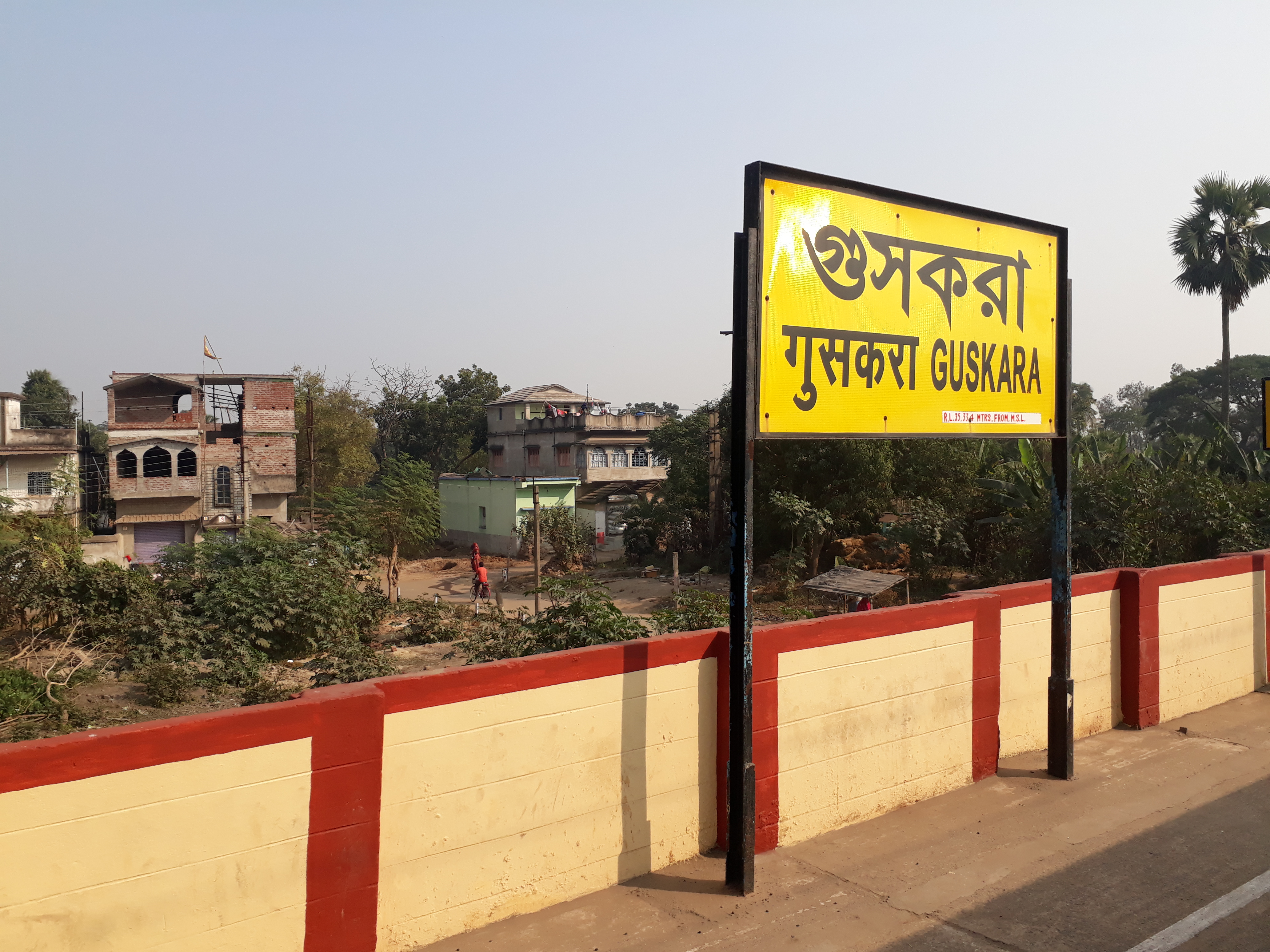 Guskara railway station, Burdwan district